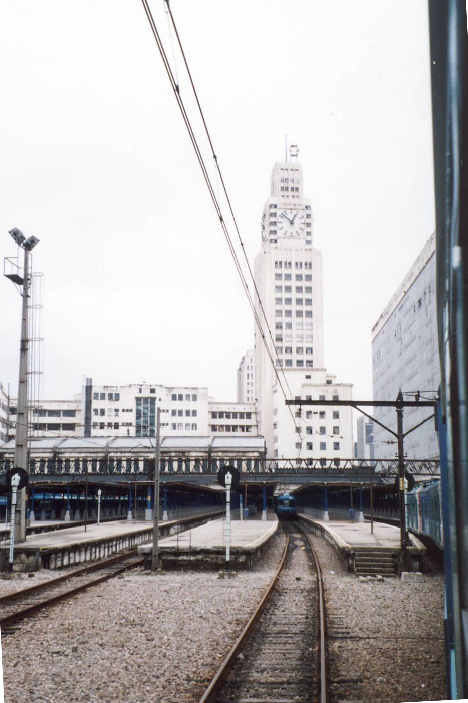 The building of Central do Brasil station, Rio de Janeiro, Brazil.